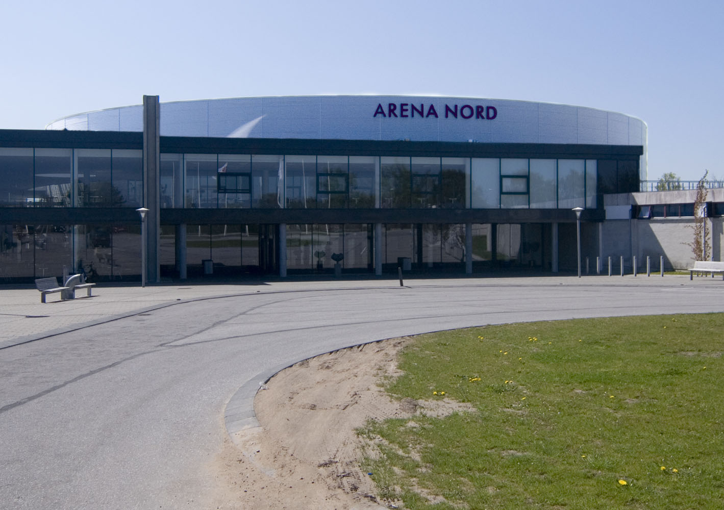 The cultural- and sports-centre Arena Nord in Frederikshavn